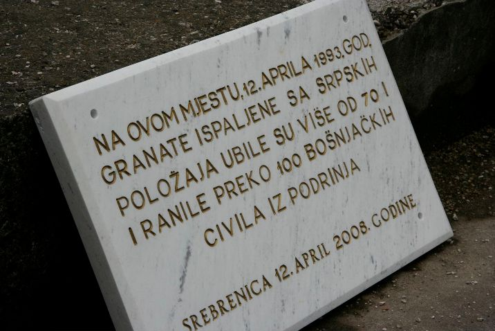 Memorial to victims of the 1993 Srebrenica Children Massacre killed in front of the Elementary School in Srebrenica on 12 April 1993.